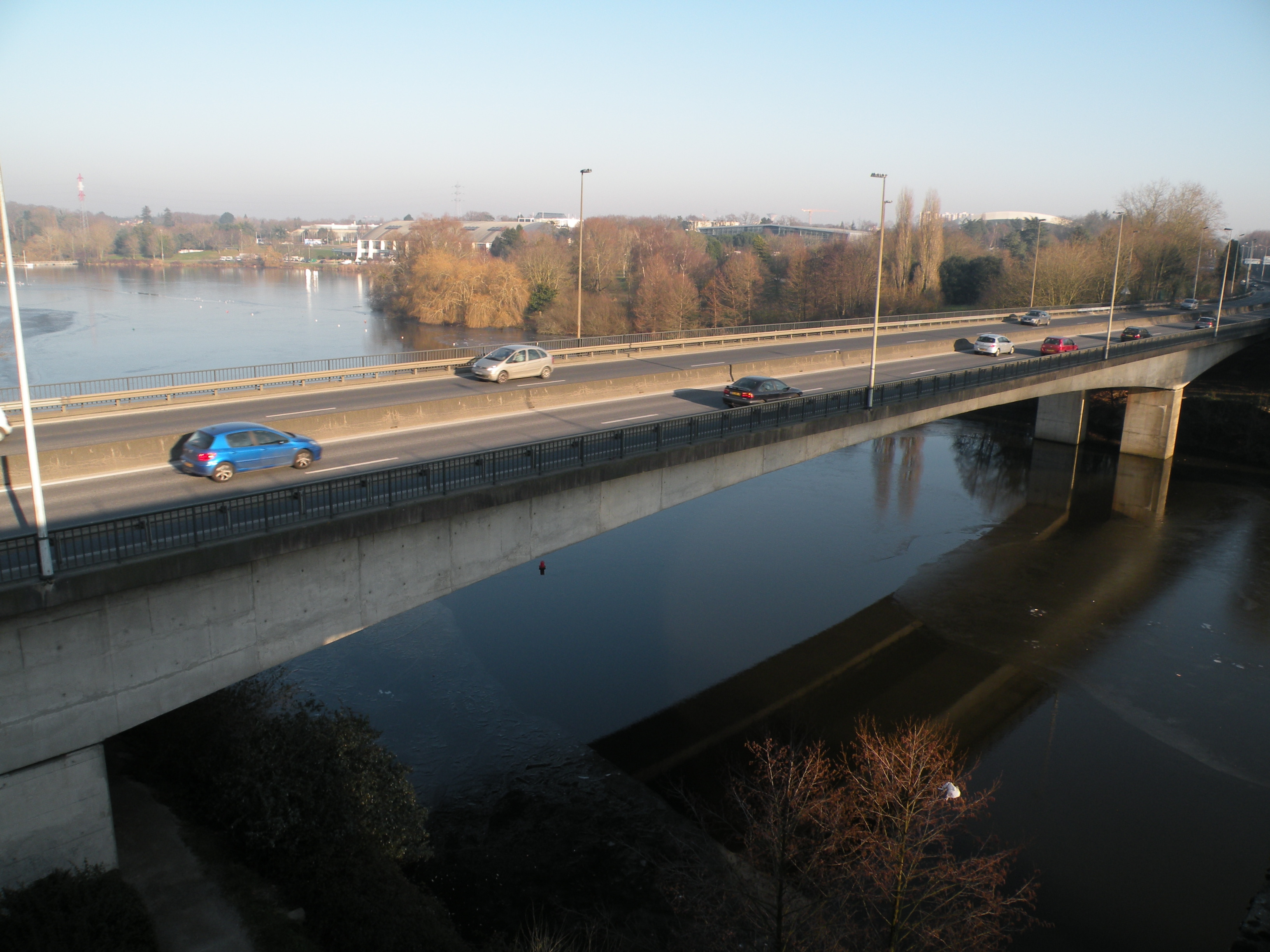 Pont de la Beaujoire : bridge over Erdre river between Nantes and La Chapelle-sur-Erdre